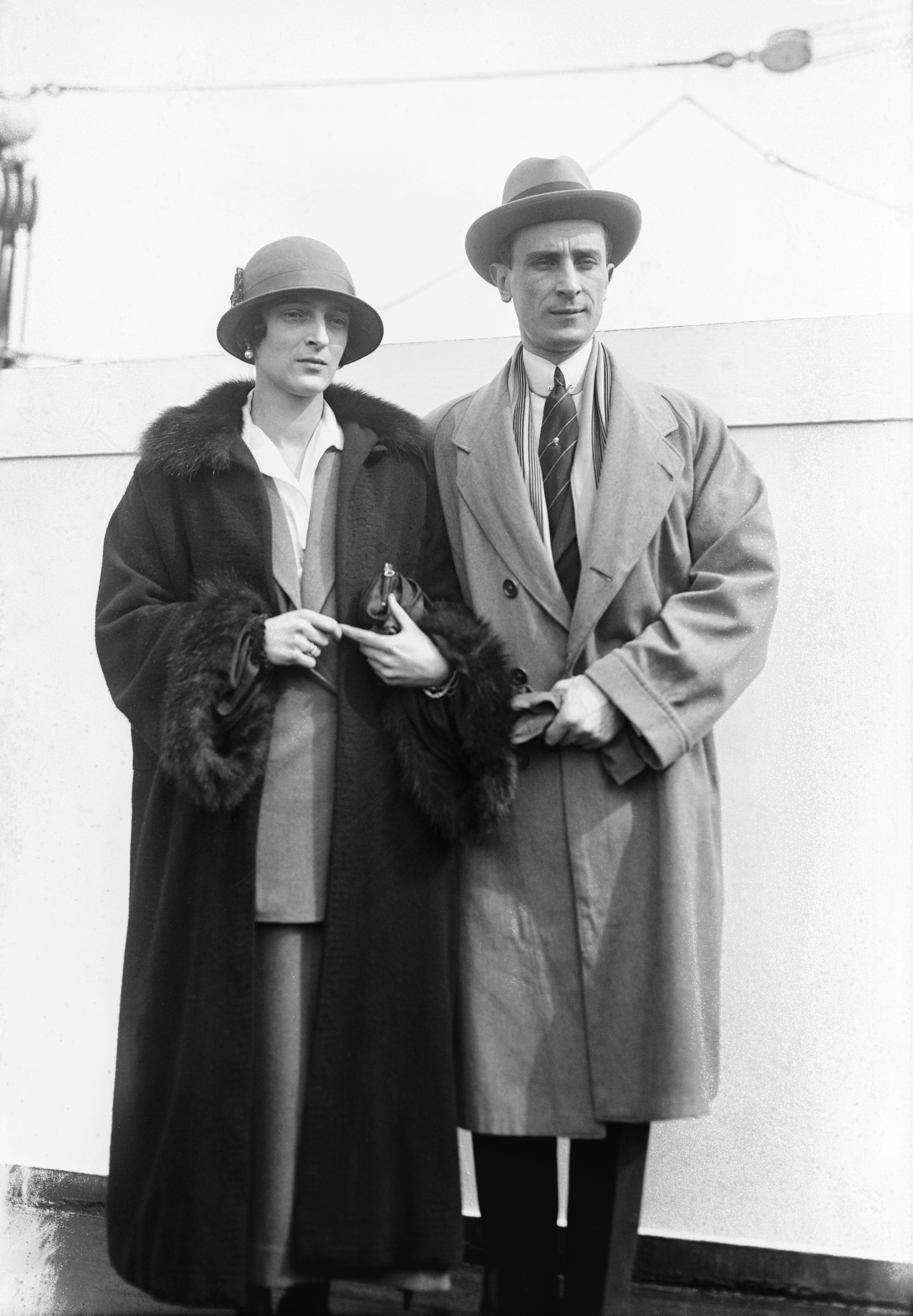 Princess Irina of Russia and her husband Prince Felix Yussupov